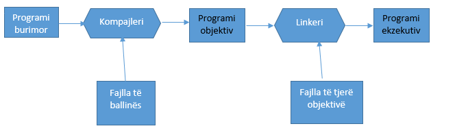 Diagram for low-level languages